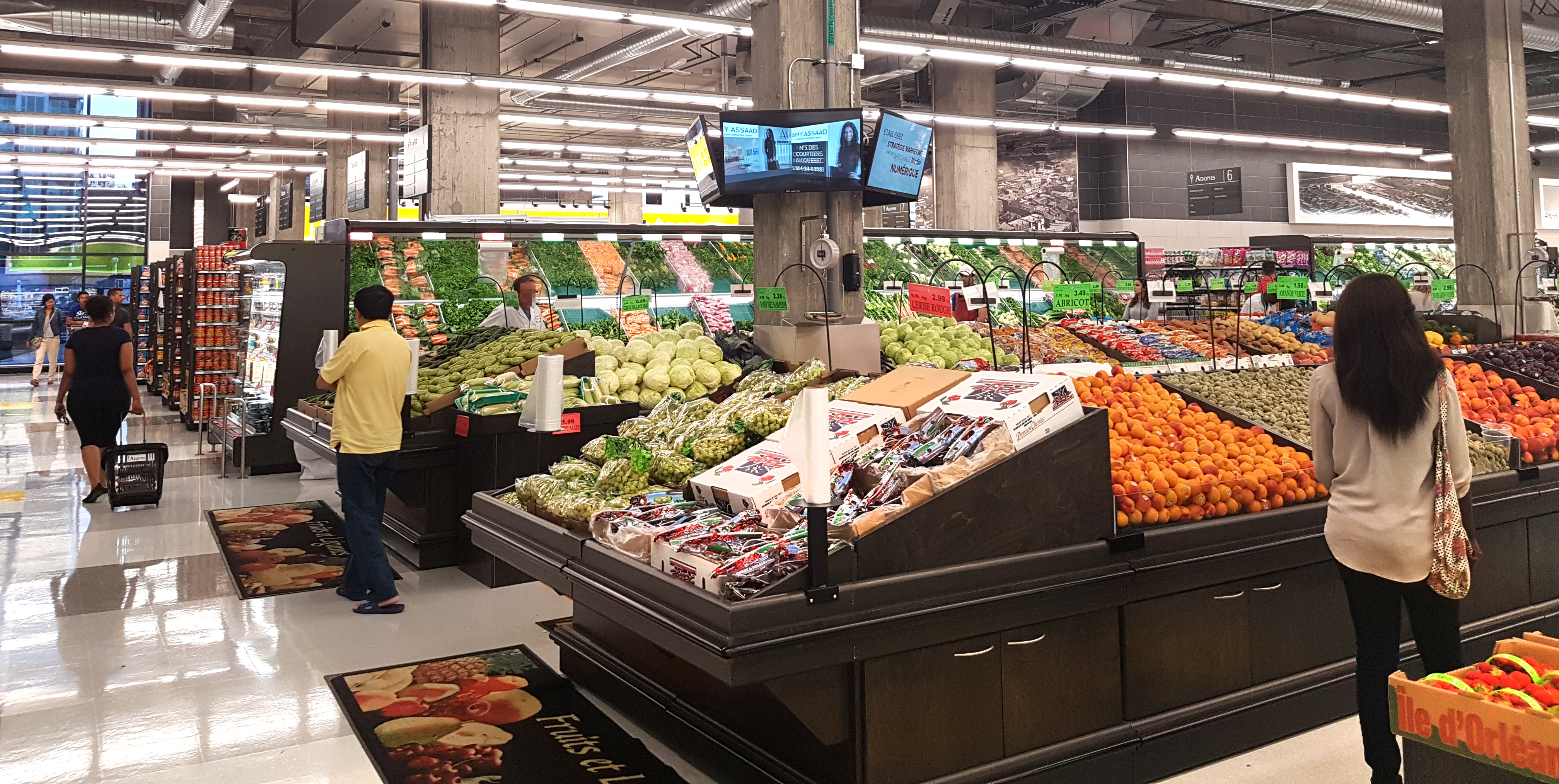 Ouverture du Marché Adonis Griffintown, 225 rue Peel, Montréal, 7 juillet 2016. Opening of Marché Adonis Griffintown supermarket on 7 July 2016 at 225 Peel Street in Montreal, Québec, Canada.